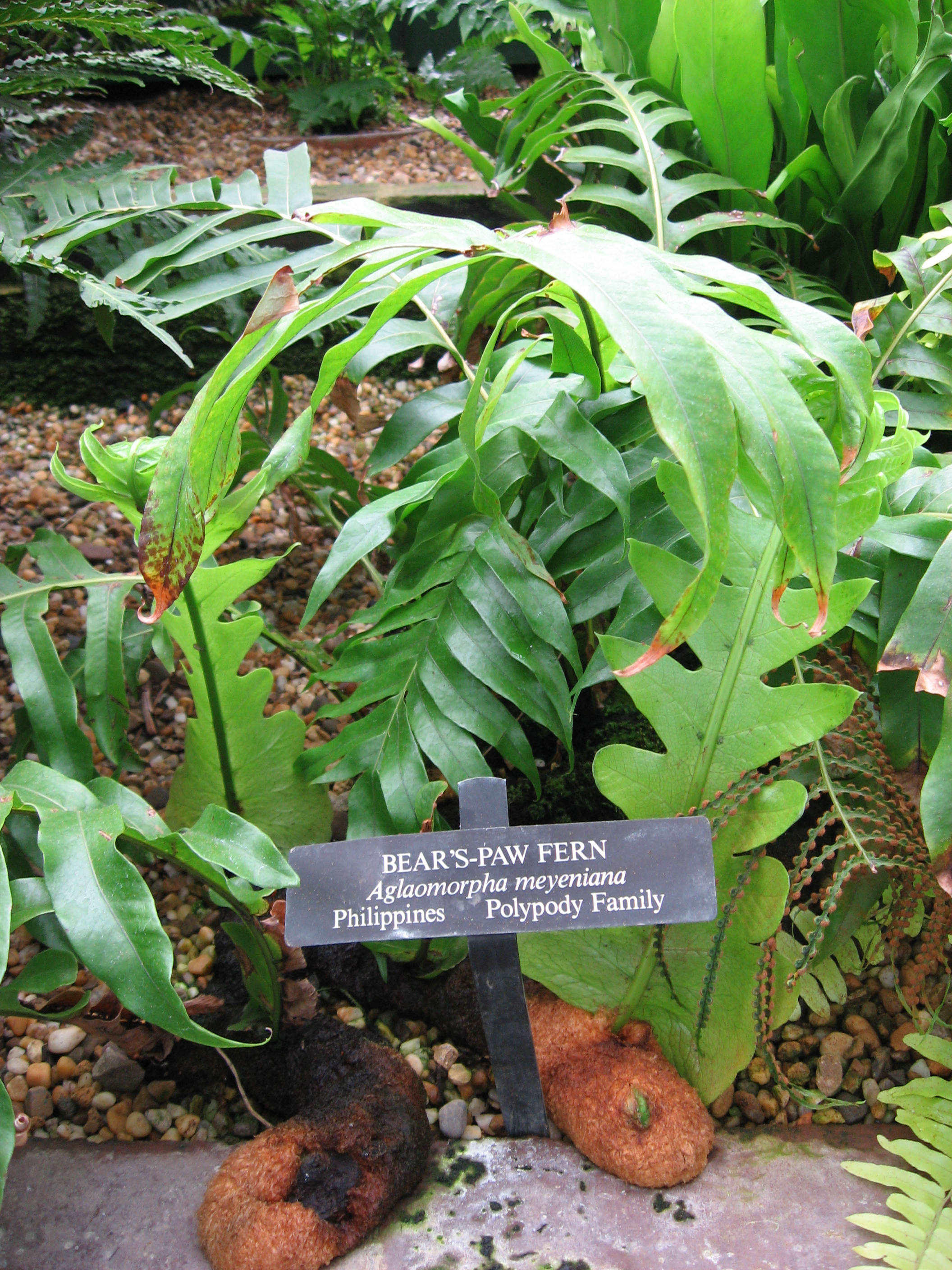 A picture of Aglaomorpha meyeniana.